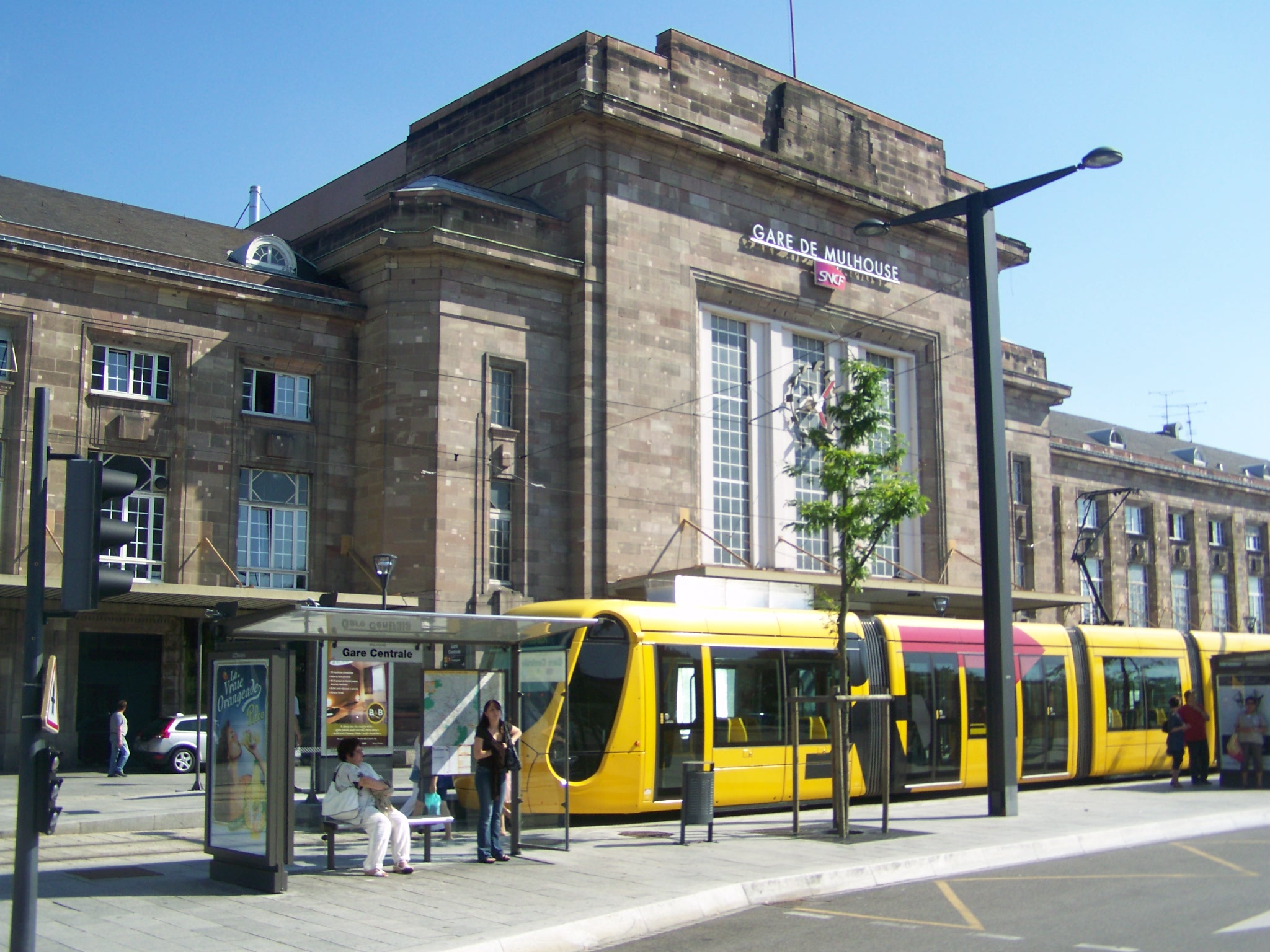 View on the middle-facade of Mulhouse railway station (in Haut-Rhin, Alsace, France) and tramway line 1.